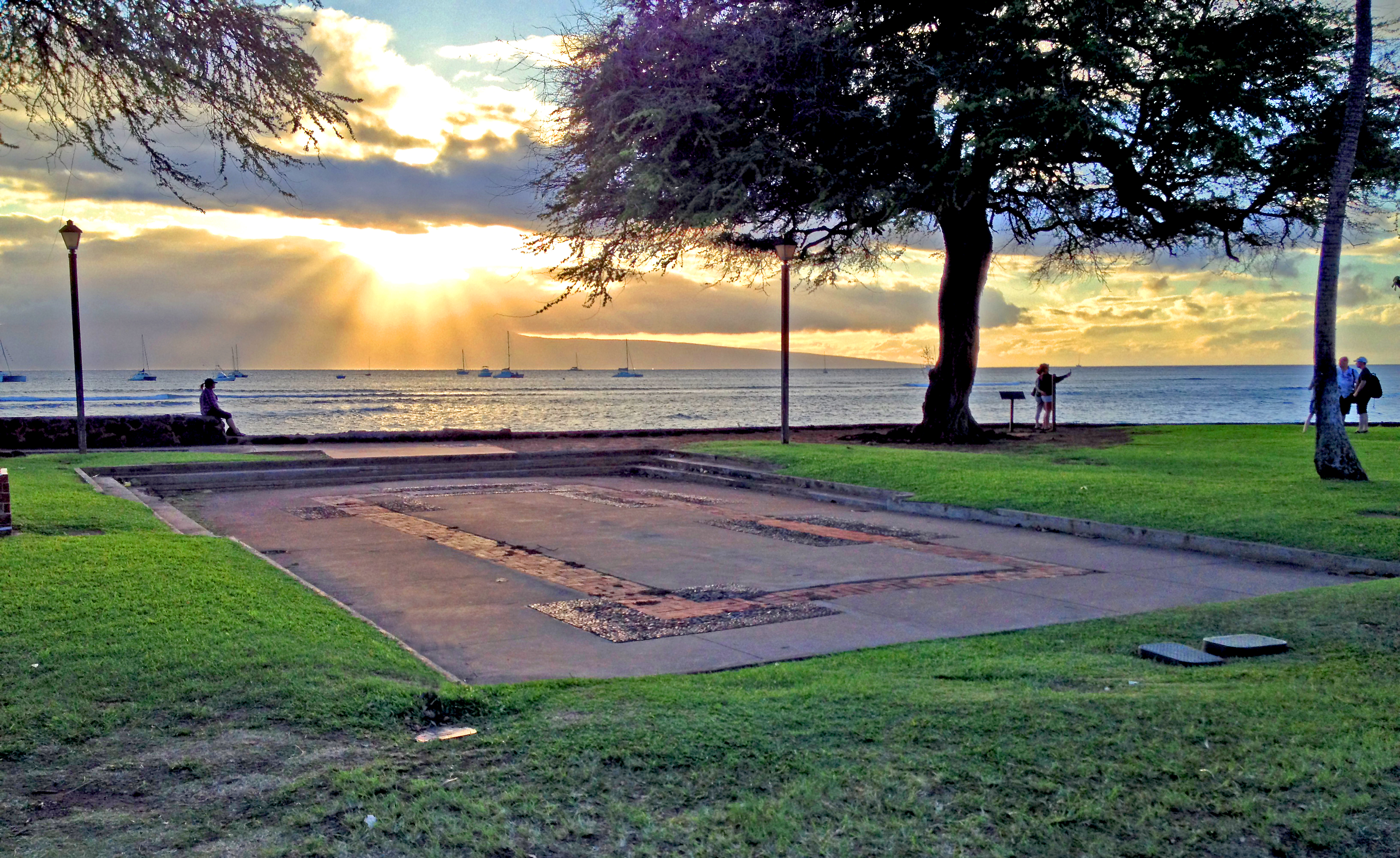 Foundations of the Brick Palace of King Kamehameha I, built by Mr. Mela [Miller] and Mr. Keka ‘ele’ele for Kaahumanu.